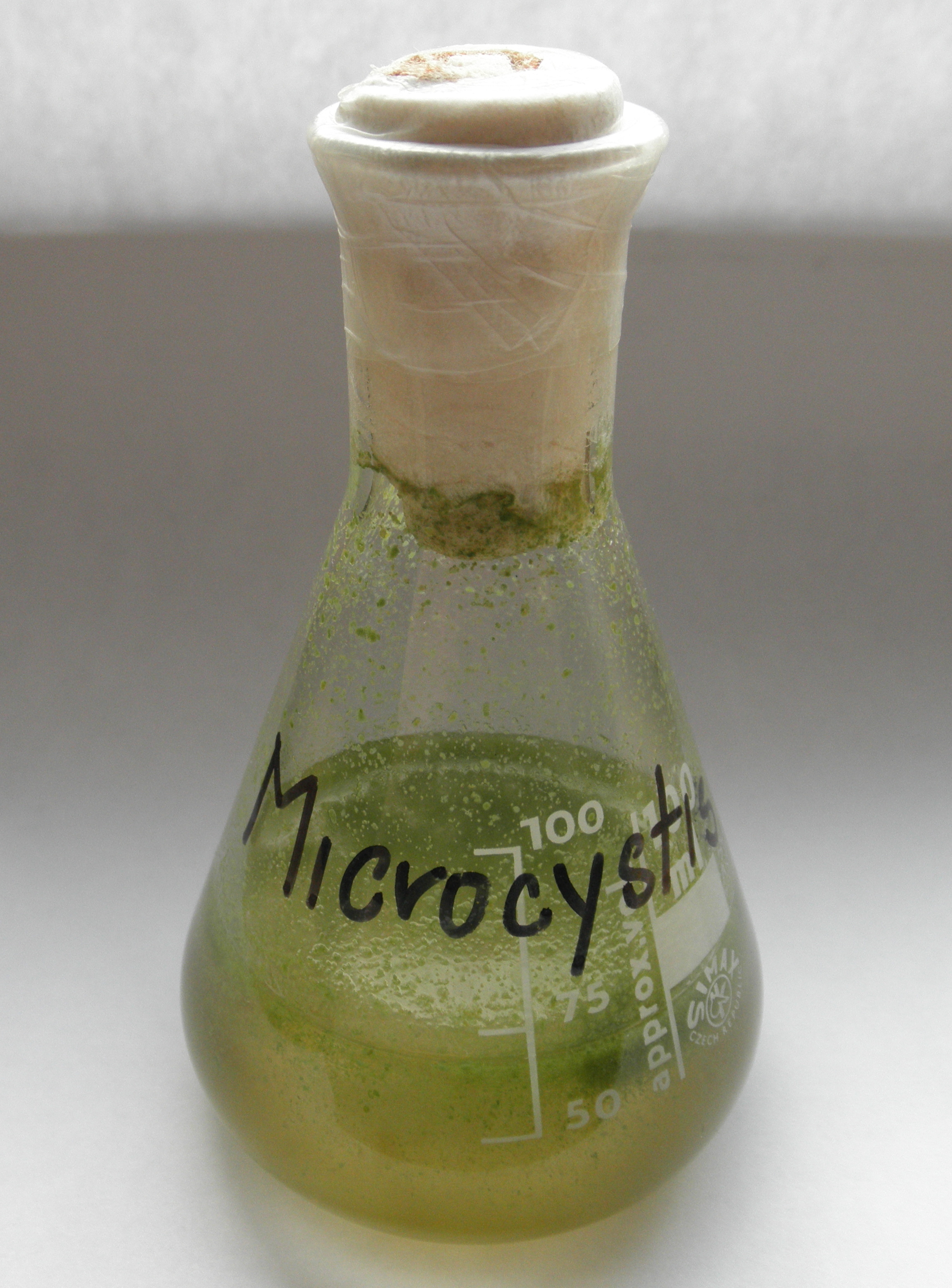 Photo of an Erlenmeyer flask with Microcystis floating colonies.